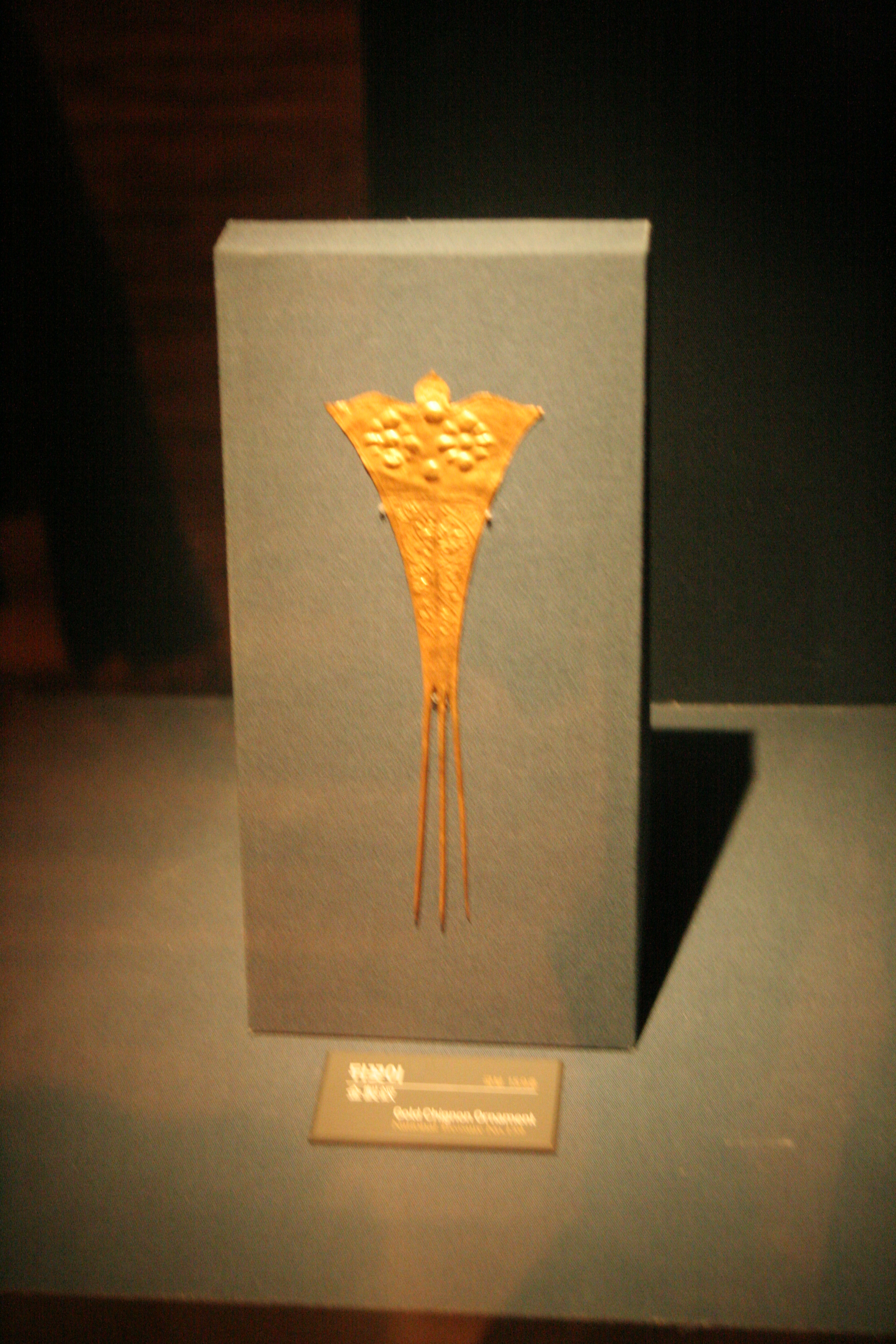 A gold ornament from King Muryeong's tomb.